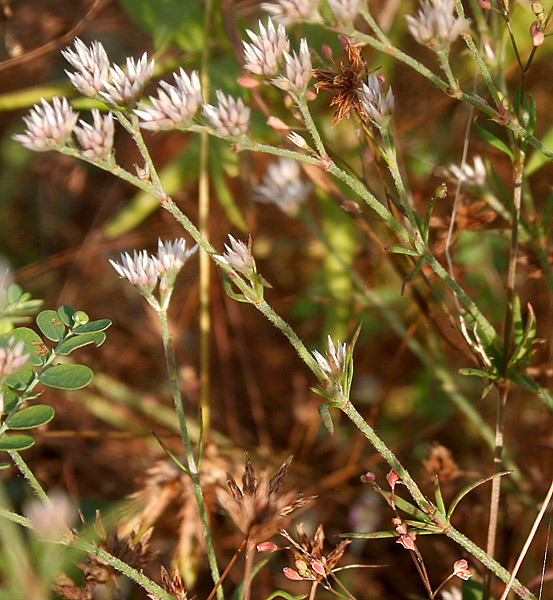 Polycarpaea corymbosa (Synonyms: Achyranthes corymbosa, Polycarpaea nebulosa)- Oldman's Cap • Hindi: Bugyale • Marathi: Koyap, Maitosin • Tamil: Nilaisedachi, Cataicciver, Pallippuntu • Malayalam: Katu-mailosina • Telugu: Bommasari, Rajuma • Kannada: paade mullu gida, poude mullu, poude mullu gida • Sanskrit: Bhisatta, Okharadi, Parpata, Tadagamritikodbhava- in Herbal Garden, in Rangareddy district of Andhra Pradesh, India.